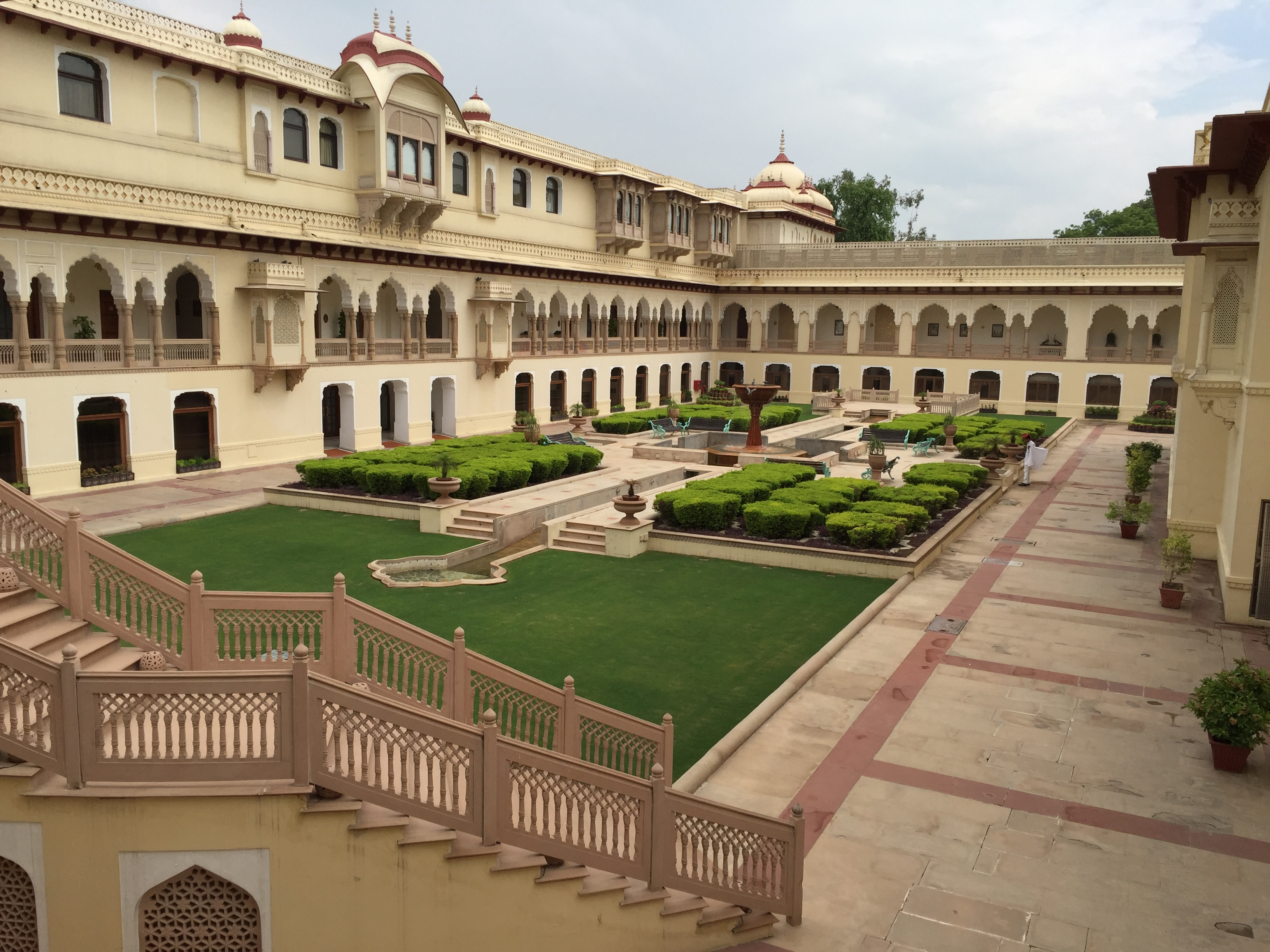 Courtyard of Rambagh Palace Jaipur, India